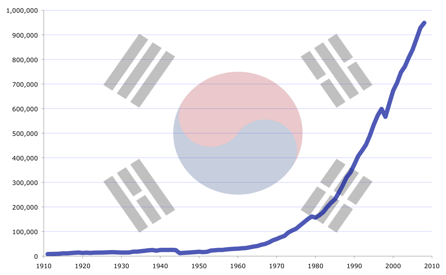 South Korea GDP (PPP) evolution from 1911 to 2008 in millions of 1990 International dollars. Source: Angus Maddison. South Korean flag from File:Flag of South Korea.svg.